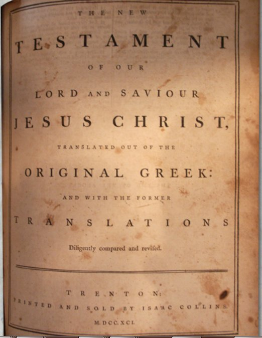 Isaac Collins 1791 bible printed in New Jersey